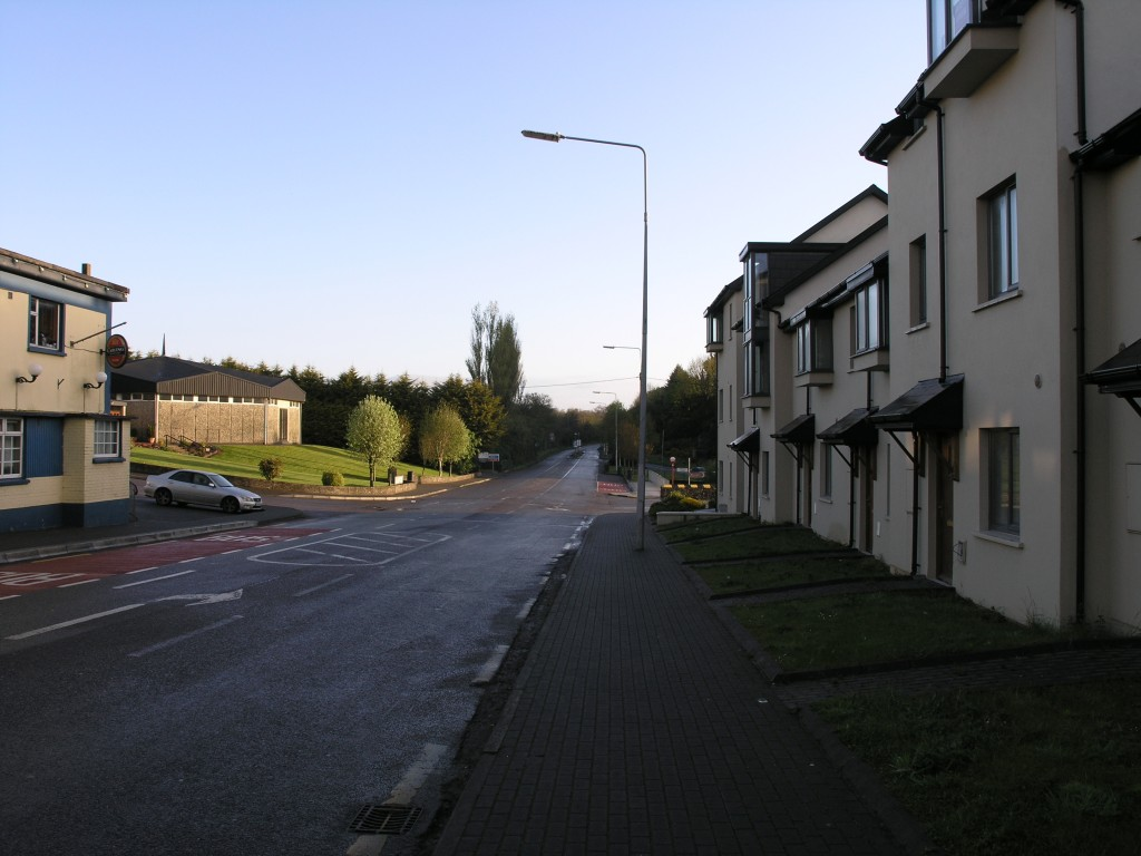 Main street, Riverstick